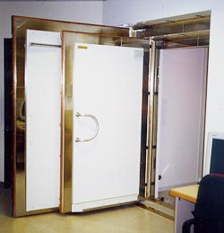 Entrance to Magnetically Shielded Room (MSR), showing the separate shielding layers. See Magnetoencephalography